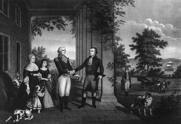 Adolphe Thiers